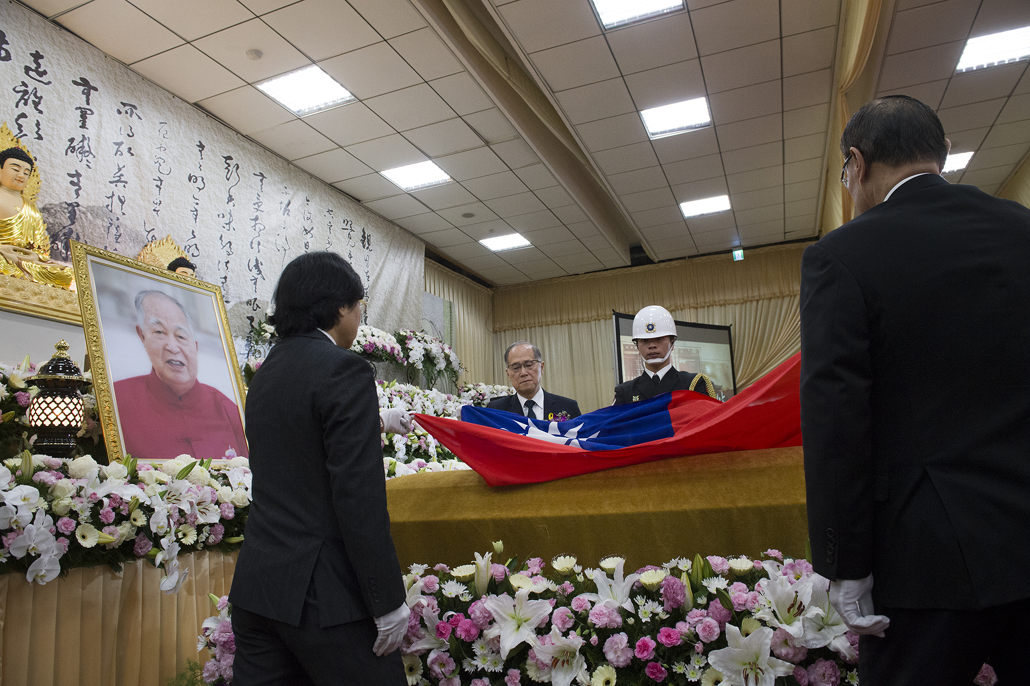 授權方式及範圍：中華民國總統府│政府網站資料開放宣告 Authorization Method & Scope: Office of the President, Republic of China (Taiwan) | Government Website Open Information Announcement